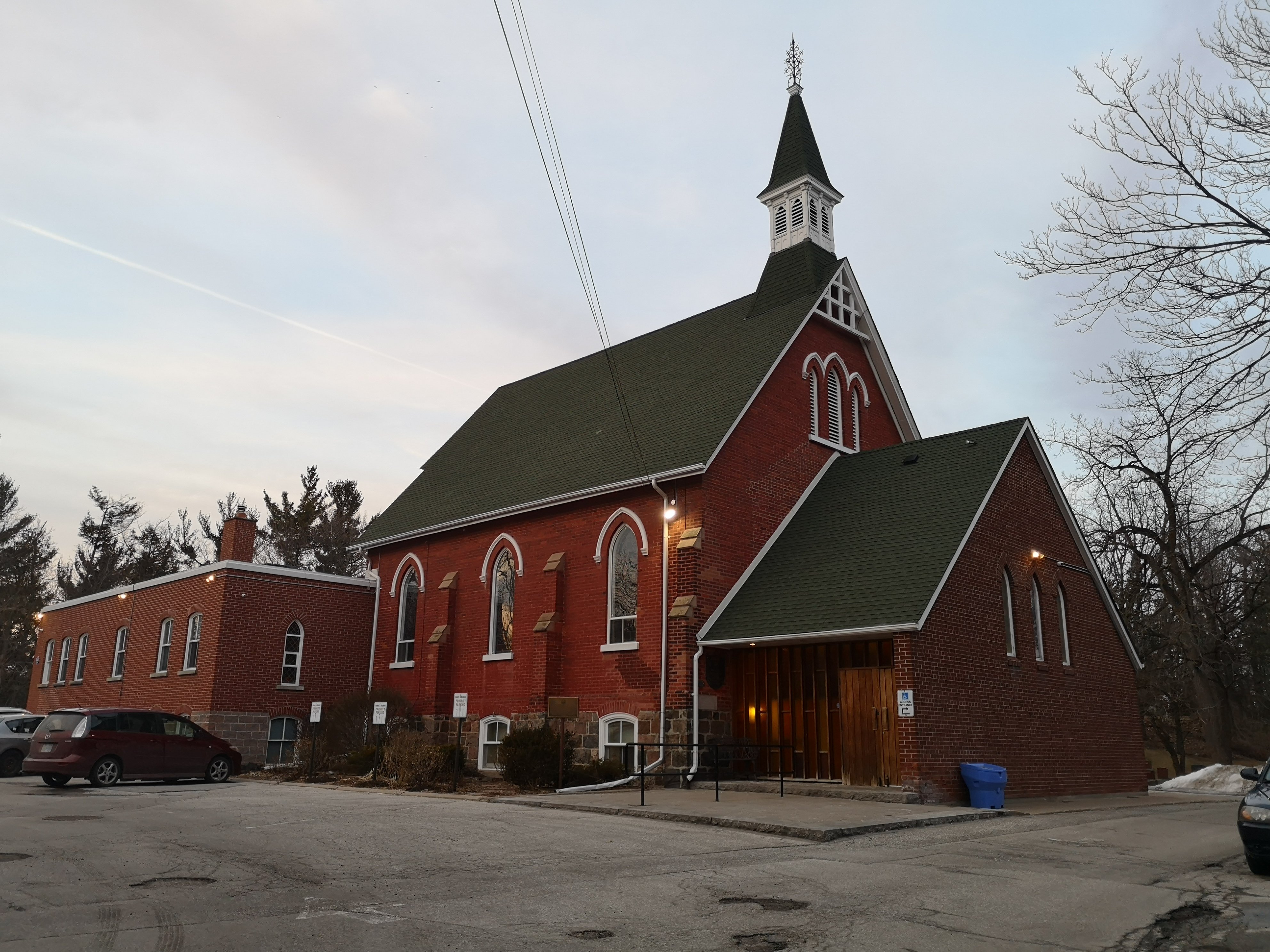 Melville Church in West Hill, a neighbourhood of Scarborough, Toronto. Built in 1851, it is located on 70 Old Kingston Road.